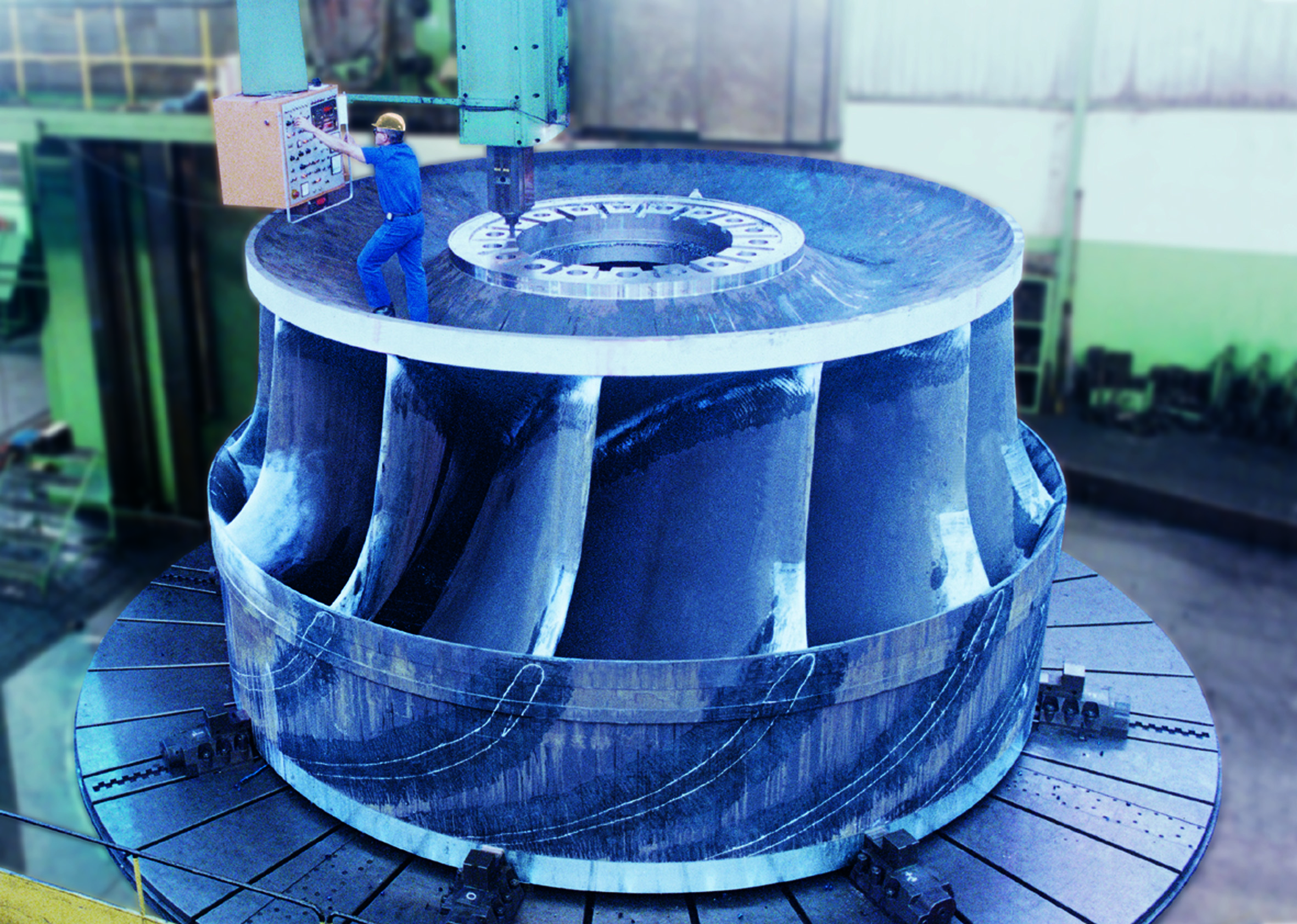 A Runner of a Francis Turbine on a turning lathe.